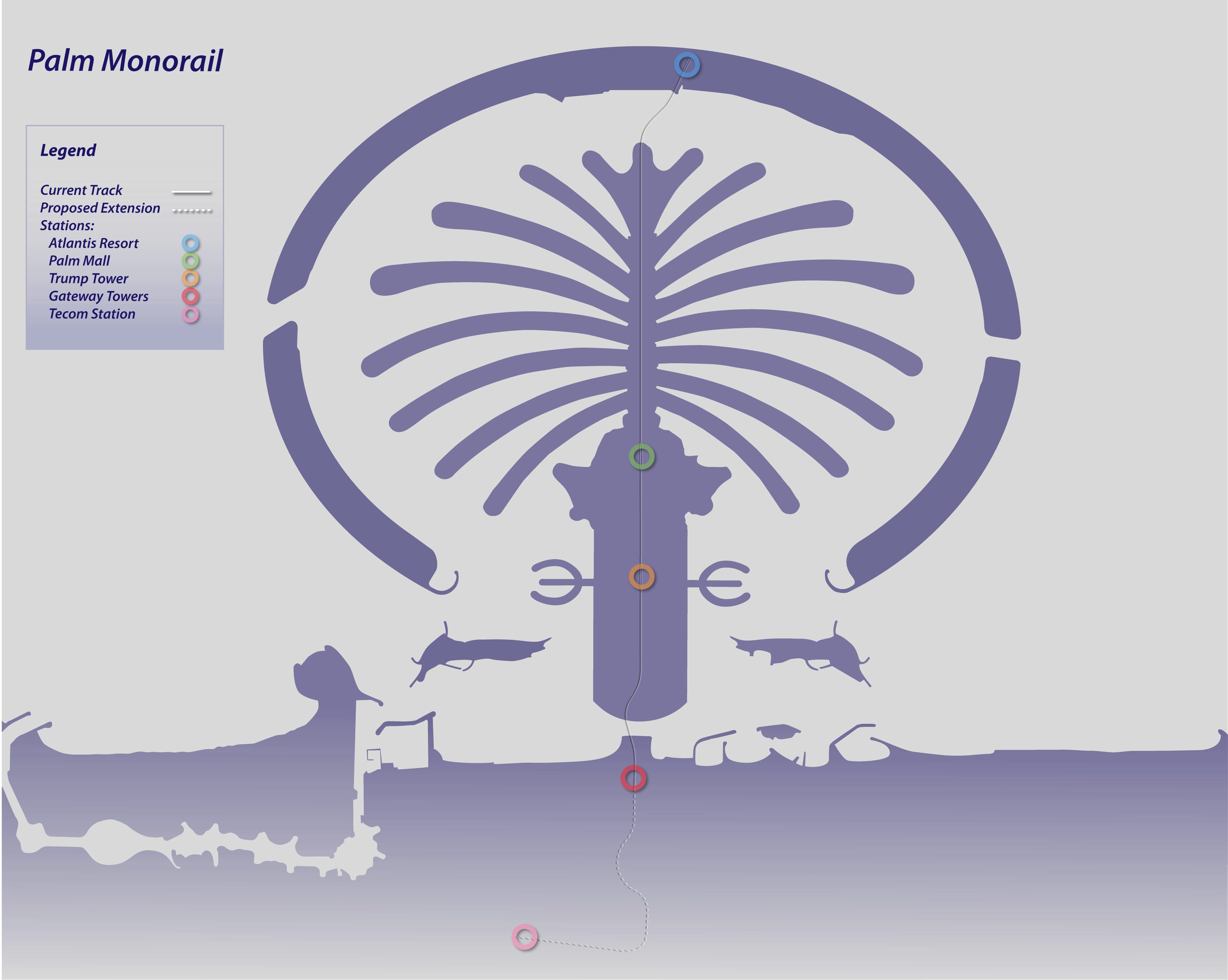 Plan view of Palm Jumeirah Monorail including proposed extension.